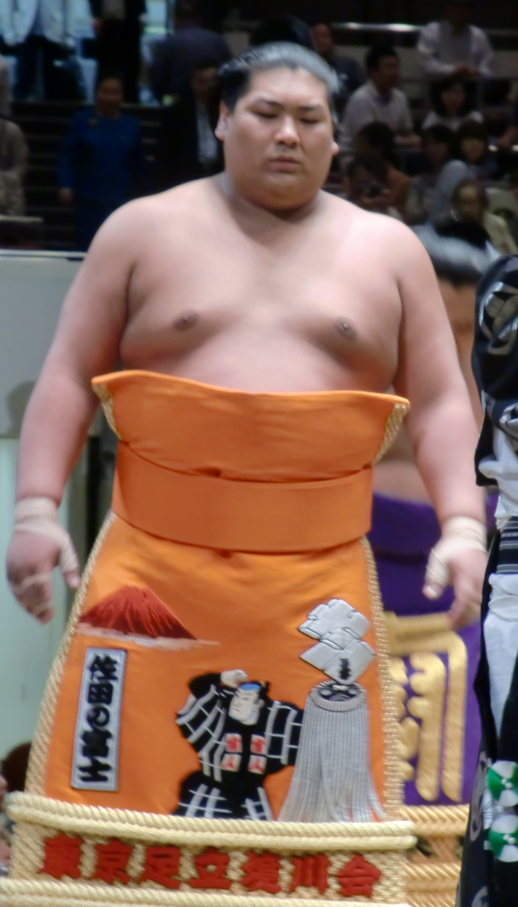 taken at 2010 May tournament